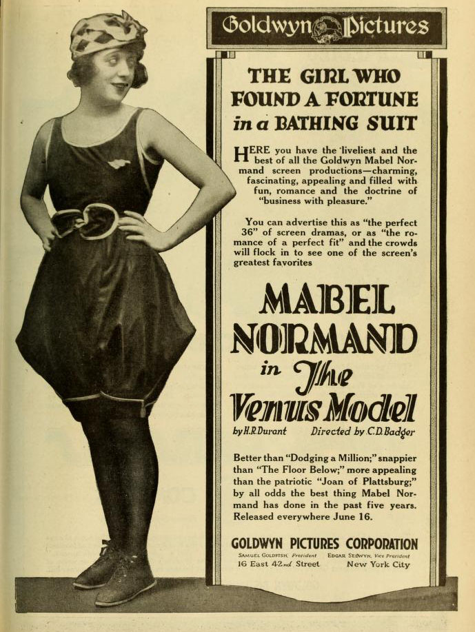 Advertisement in Moving Picture World, May 1918 for the American comedy romance film The Venus Model (1918) with Mabel Normand.